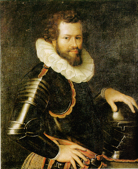 Ranuccio I Farnese (1569-1622), Duke of Parma and Piacenza, son of Alessandro Farnese and Maria d'Aviz, father of Odoardo I Farnese.